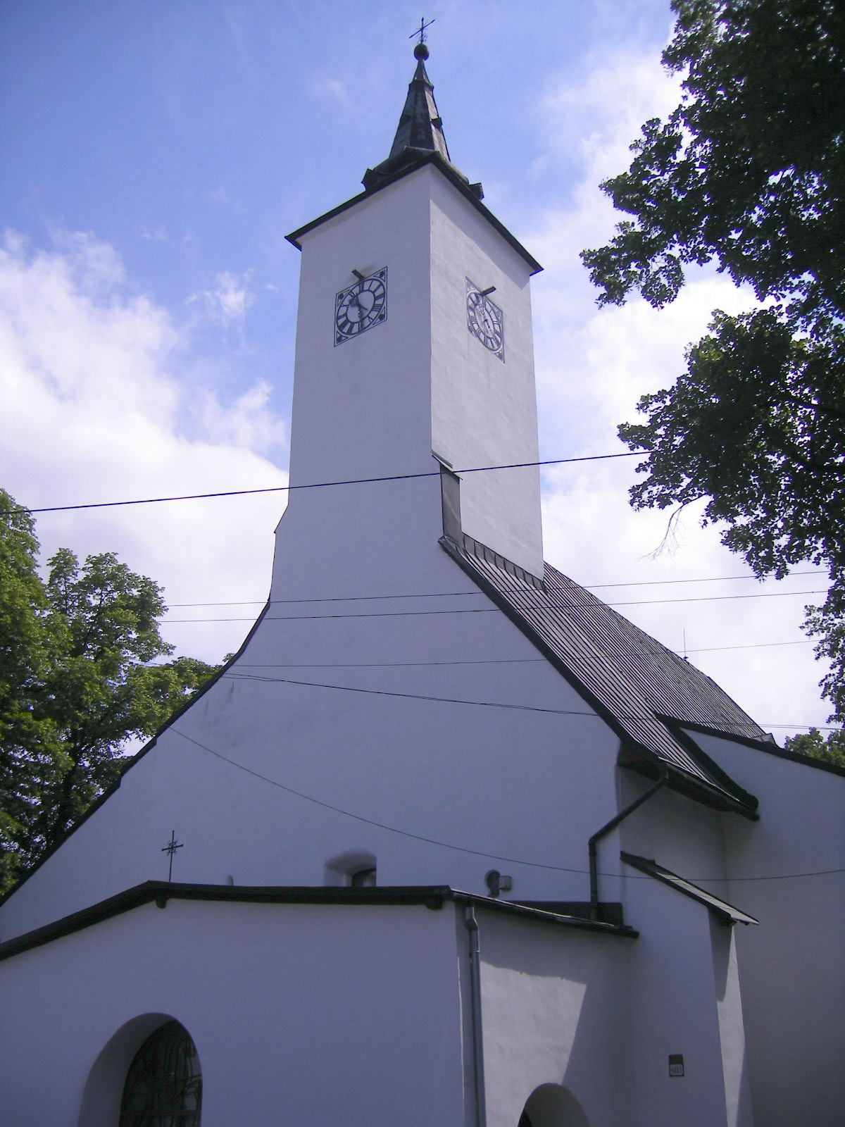 Martin - Saint Martin Church